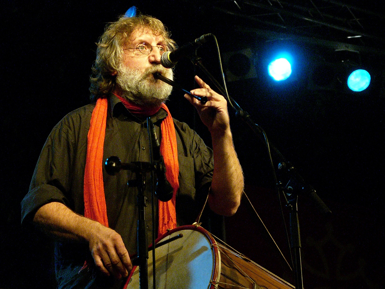 Occitan folk musician Miquèu Montanaro performing solo, open air, in Carcassone's Jardin André Chenier.